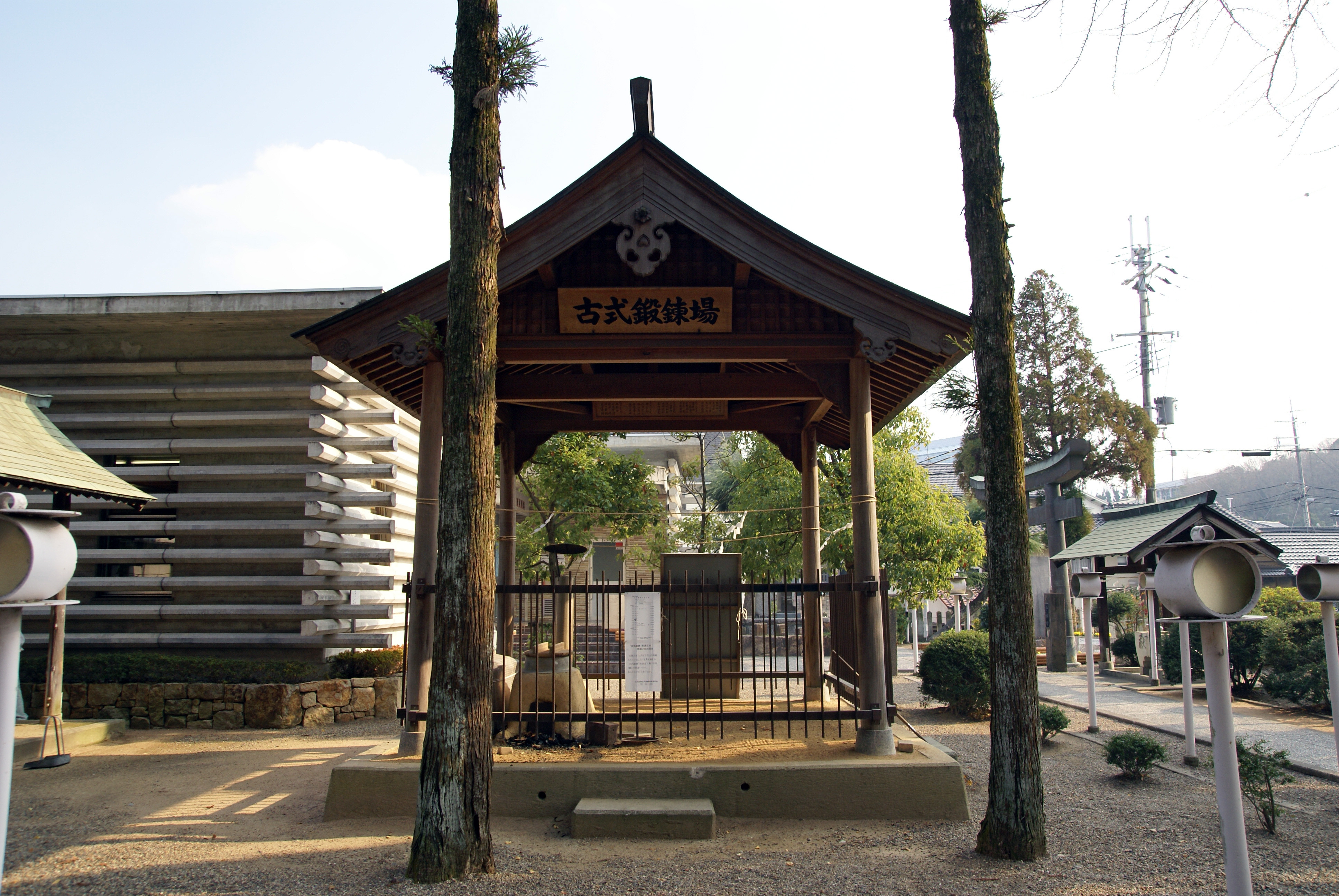 Miki City Hardware Museum in Miki, Hyogo prefecture, Japan